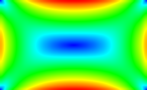 The greatest stress is marked in red, while zero is blue.